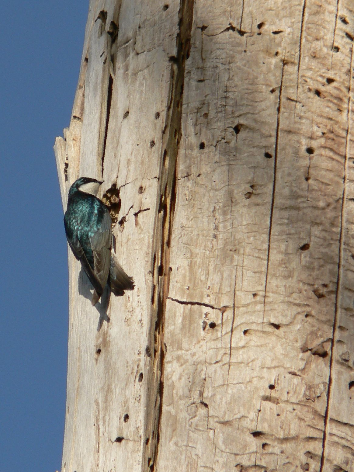 Tree Swallow